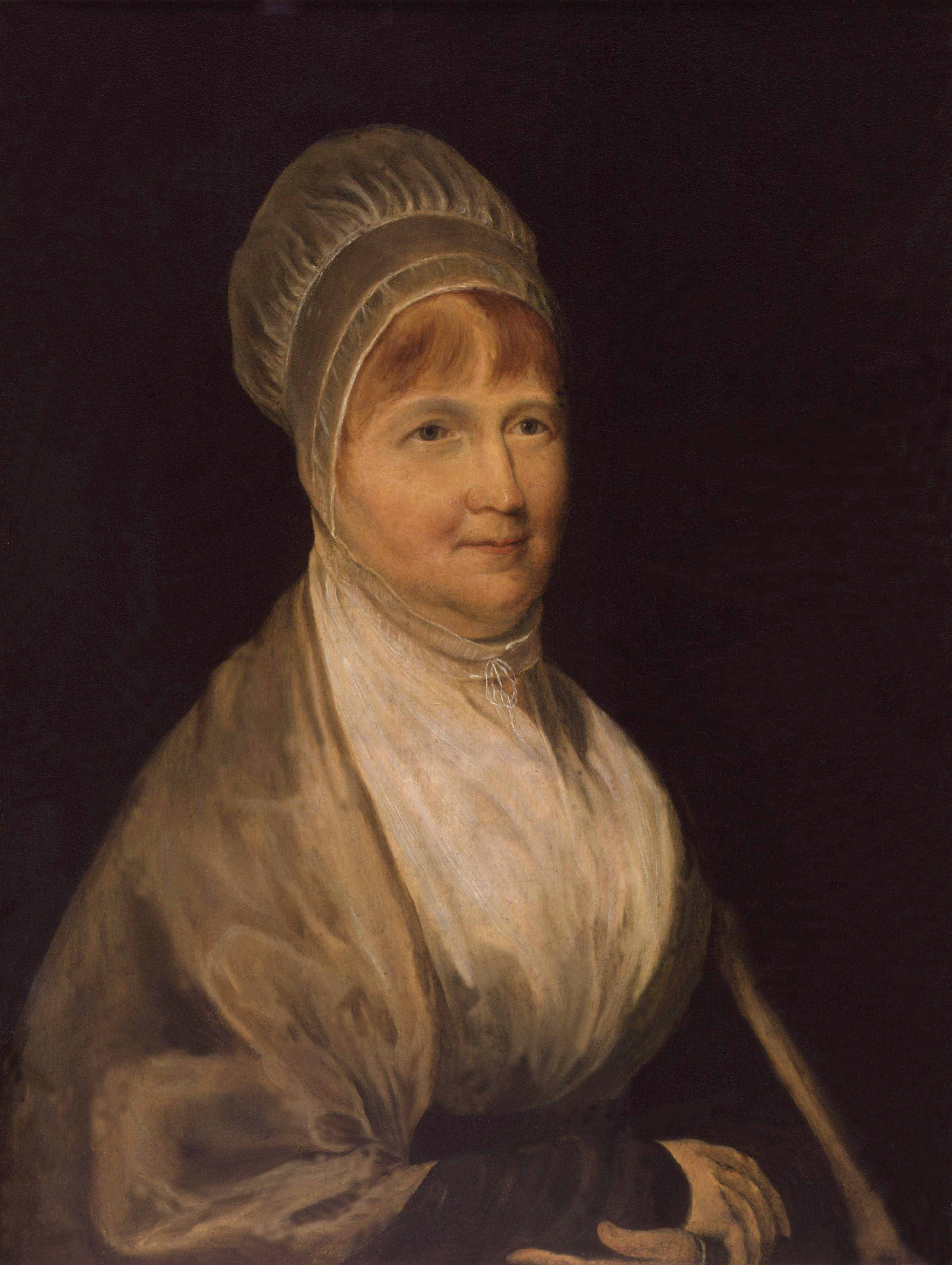 Elizabeth Fry, by Charles Robert Leslie (died 1859). All images in this batch have been confirmed as author died before 1939 according to the official death date listed by the NPG.